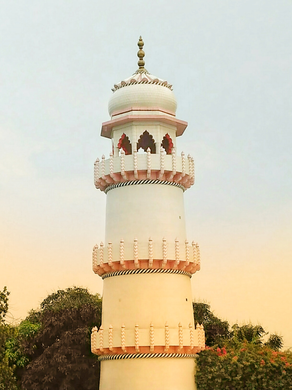 View of the Minar of back side of Taj Mahal Bangladesh. It is a tourist attraction situated at Sonargaon, Narayanganj. (Photo of 2017.)